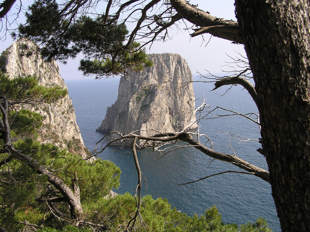 Faraglione in Capri - Italy